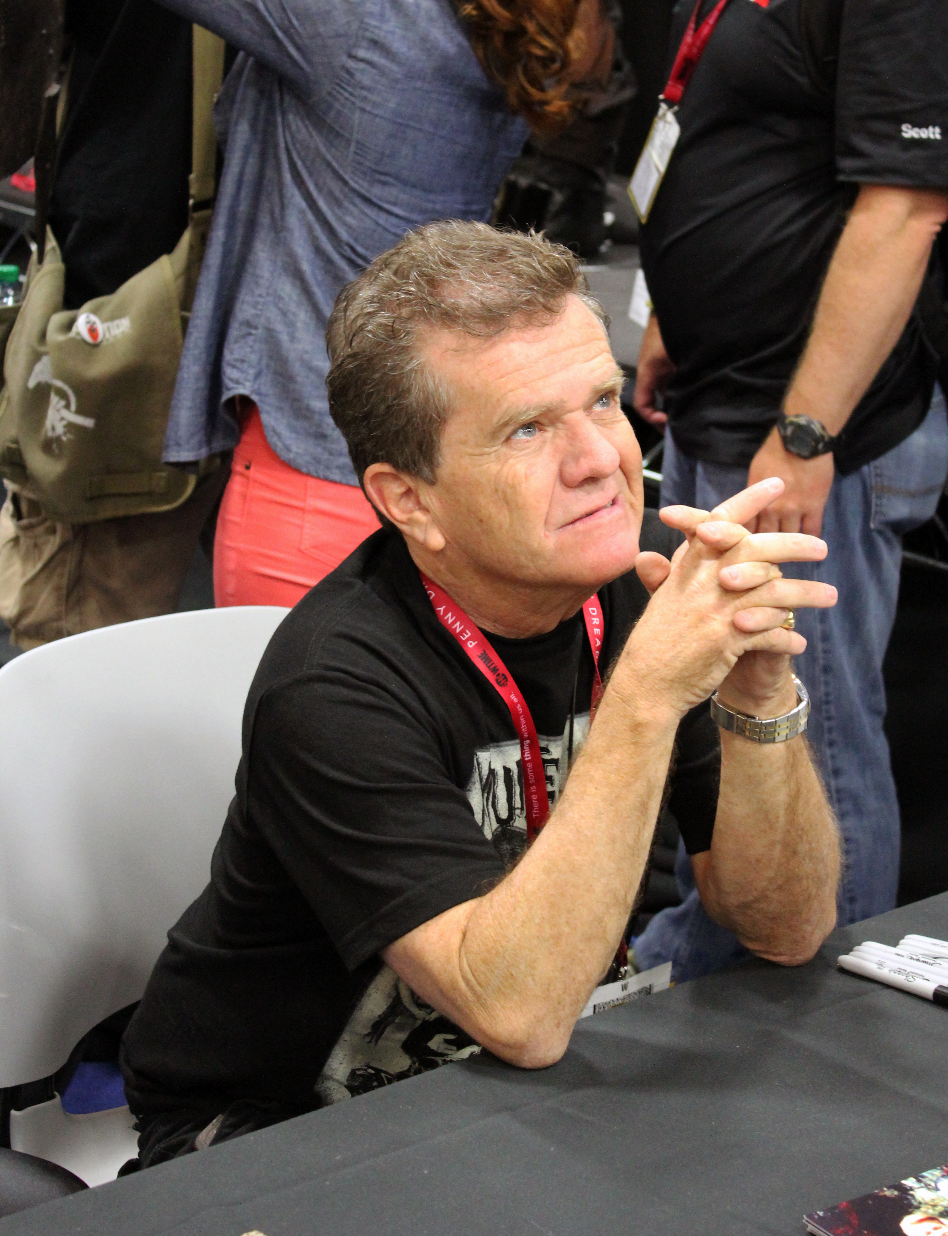 Butch Patrick at the 2014 Comic-Con convention in San Diego, California.